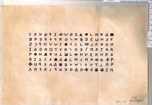 Zodiac Killer cipher, San Francisco Examiner, July 31st 1969